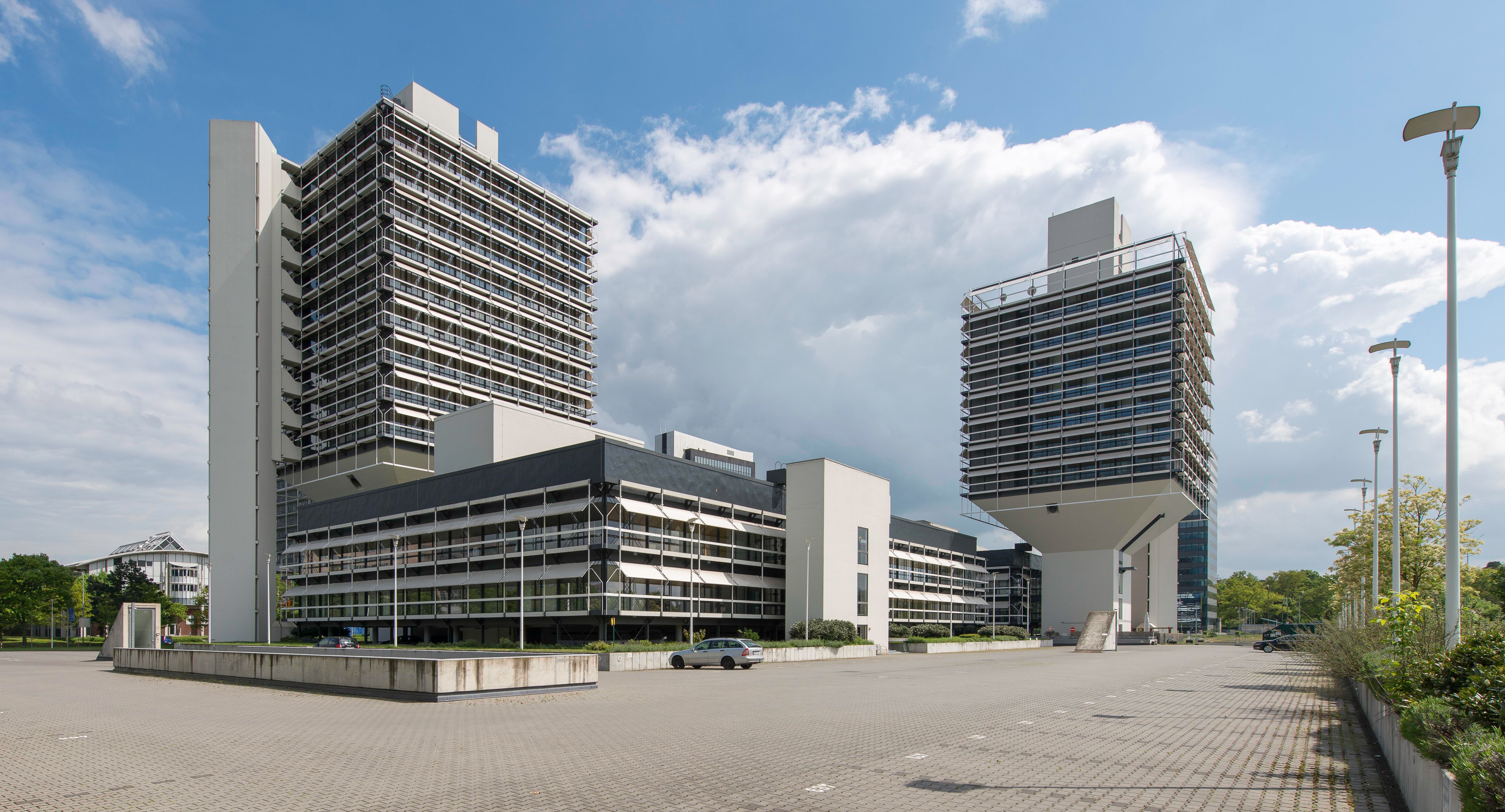 Frankfurt am Main, Lyoner Straße 34, Olivetti Towers (as seen from North-West). Office building complex by Egon Eiermann from 1972